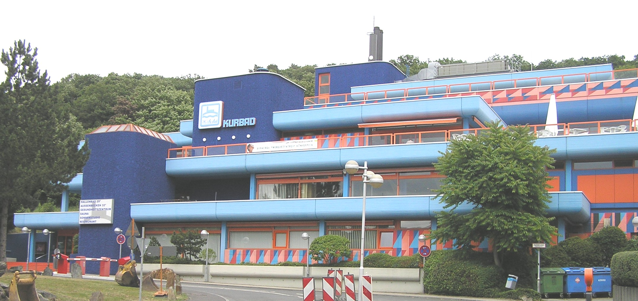 Spa bath in Königstein (Taunus), Germany, front view